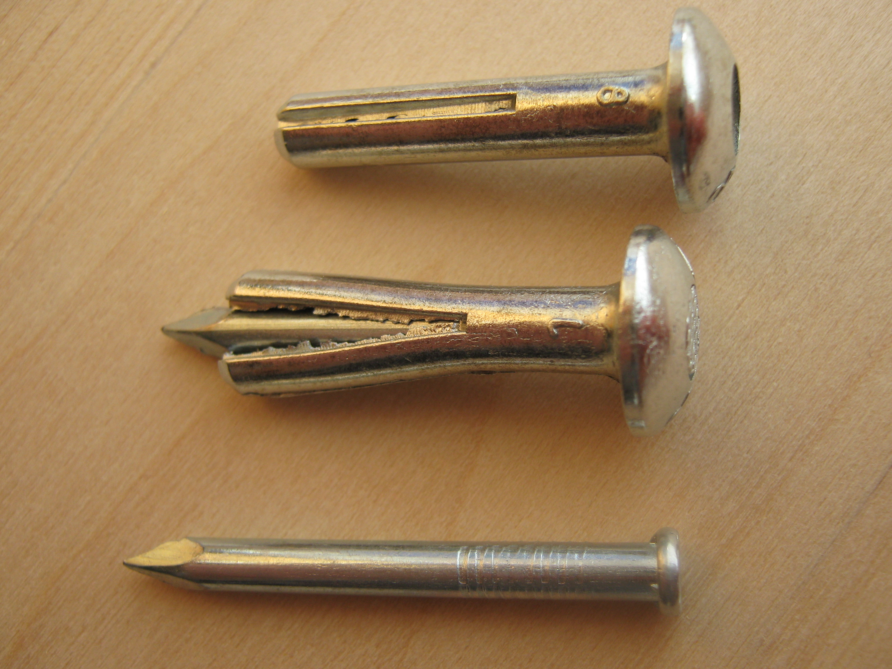 Screw anchor and metal nail